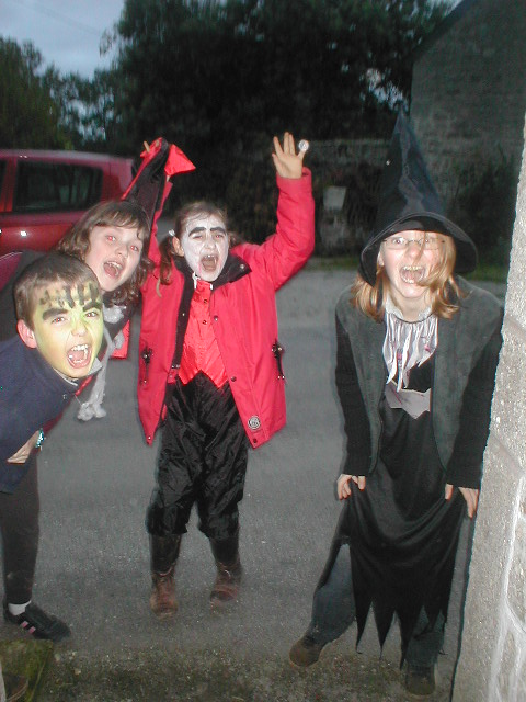 Halloween costumers, Bretagne France